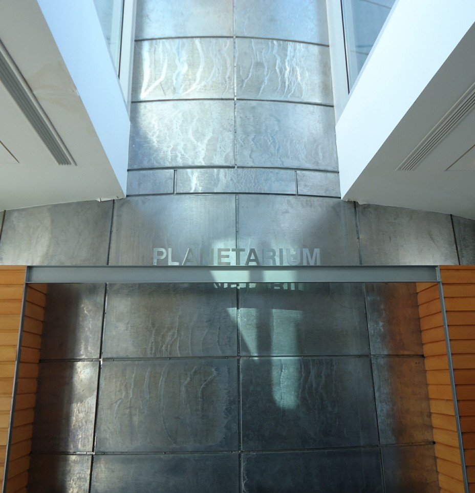 Dickinson College -- entrance to planetarium.